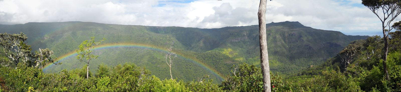 Black River Gorges Rainbow Panorama